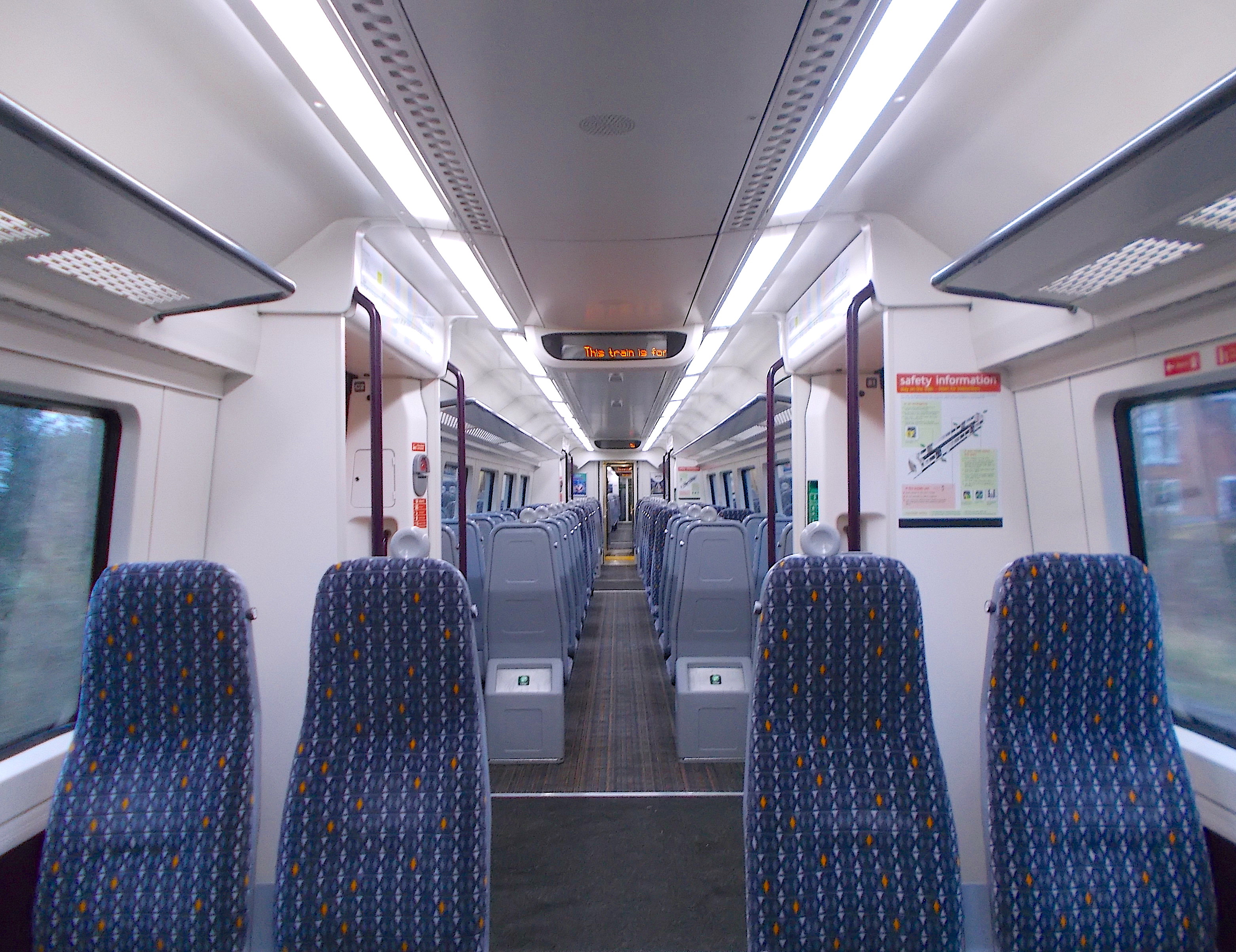 The refreshed interior of a West Midlands Railway Class 172